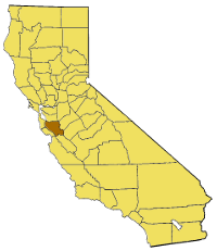 Replacement for California map showing Santa Clara County